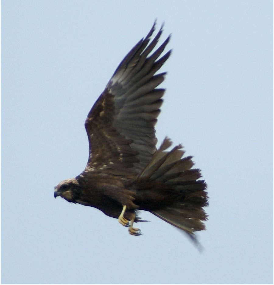 Western Marsh Harrier (Circus aeruginosus) ♀, Minsmere